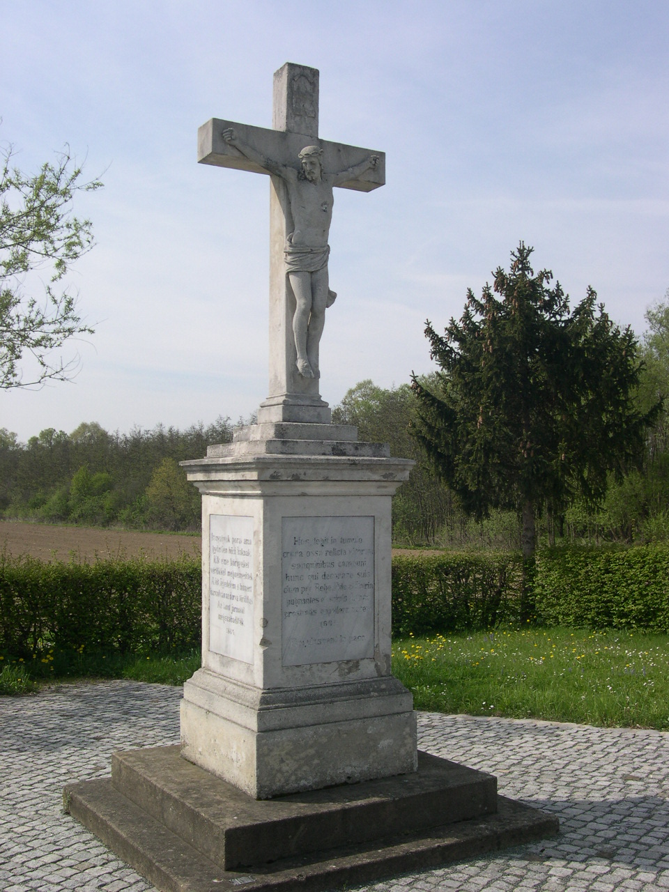 White Cross of Mogersdorf, Monument of the Battle of Saint Gotthard